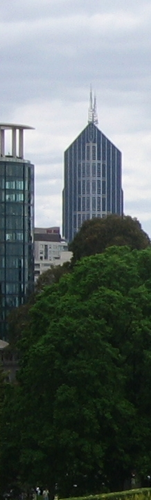 Melbourne central, one of the tallest buildings in Melbourne, Australia.